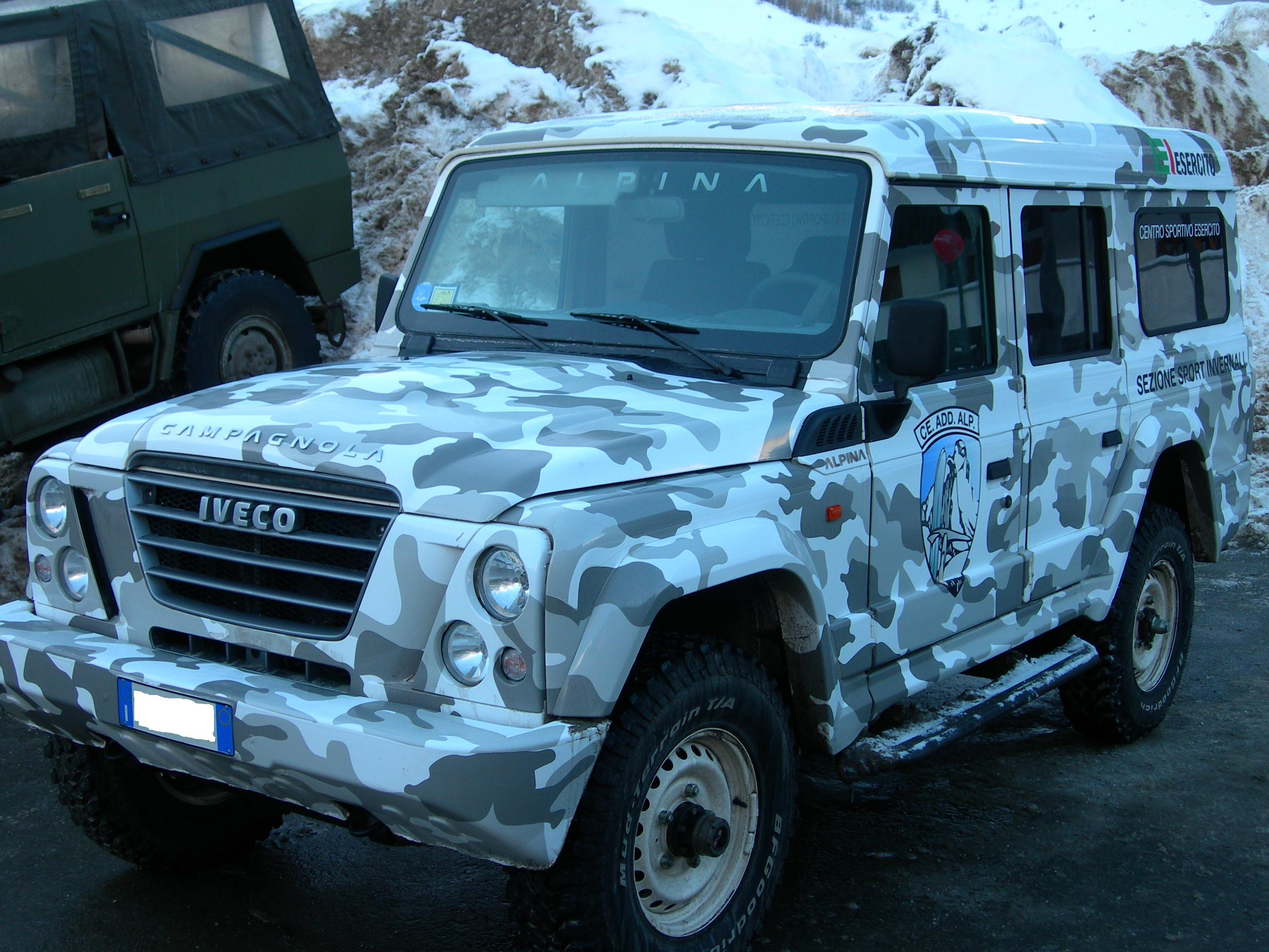 IVECO Campagnola 2008 - Alpina model.